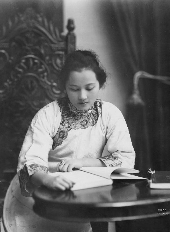 As Dr Sun Yat-sen's secretary and assistant, Madam Soong Ching Ling took painstaking care of his correspondence, newspaper clippings, translation and typing. This photograph taken in Shanghai in 1920 shows Madam Soong at work in the study room.